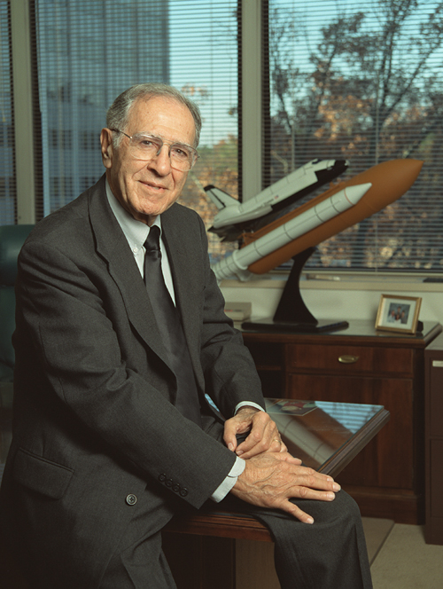 NASA press release